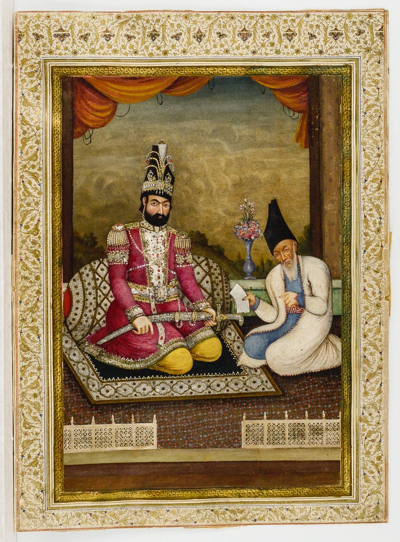 Single work, illustrated; Codices